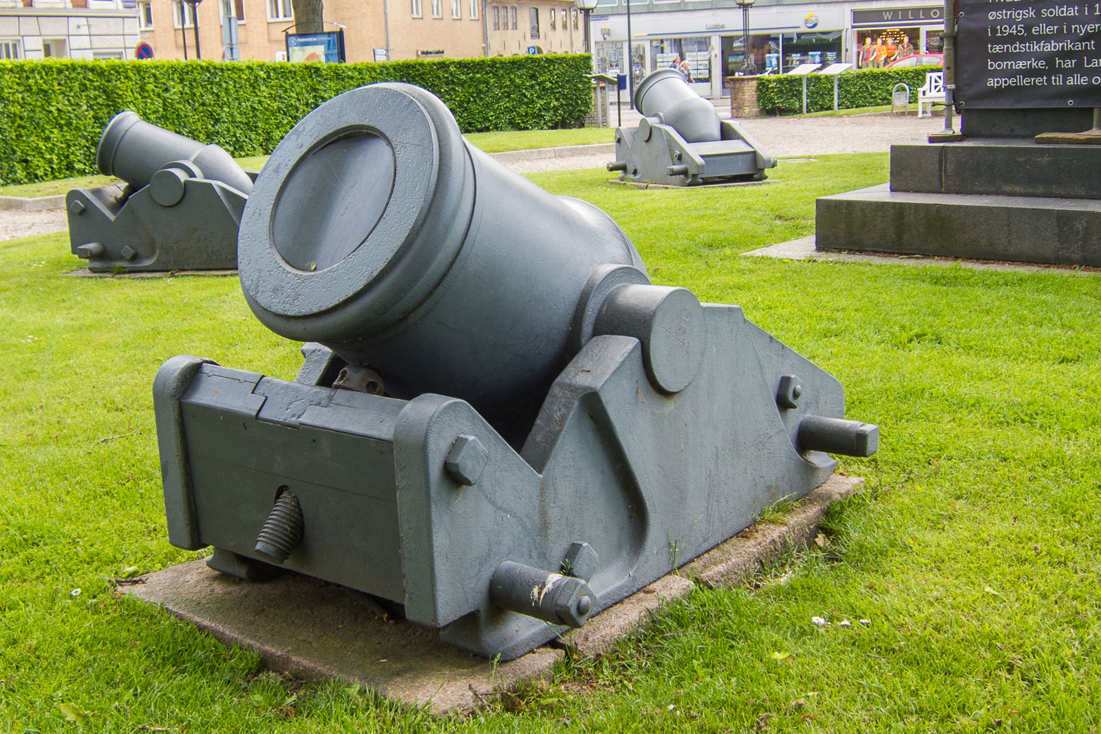 Mortar – Howitzer in the city fortress, Fredericia, Denmark